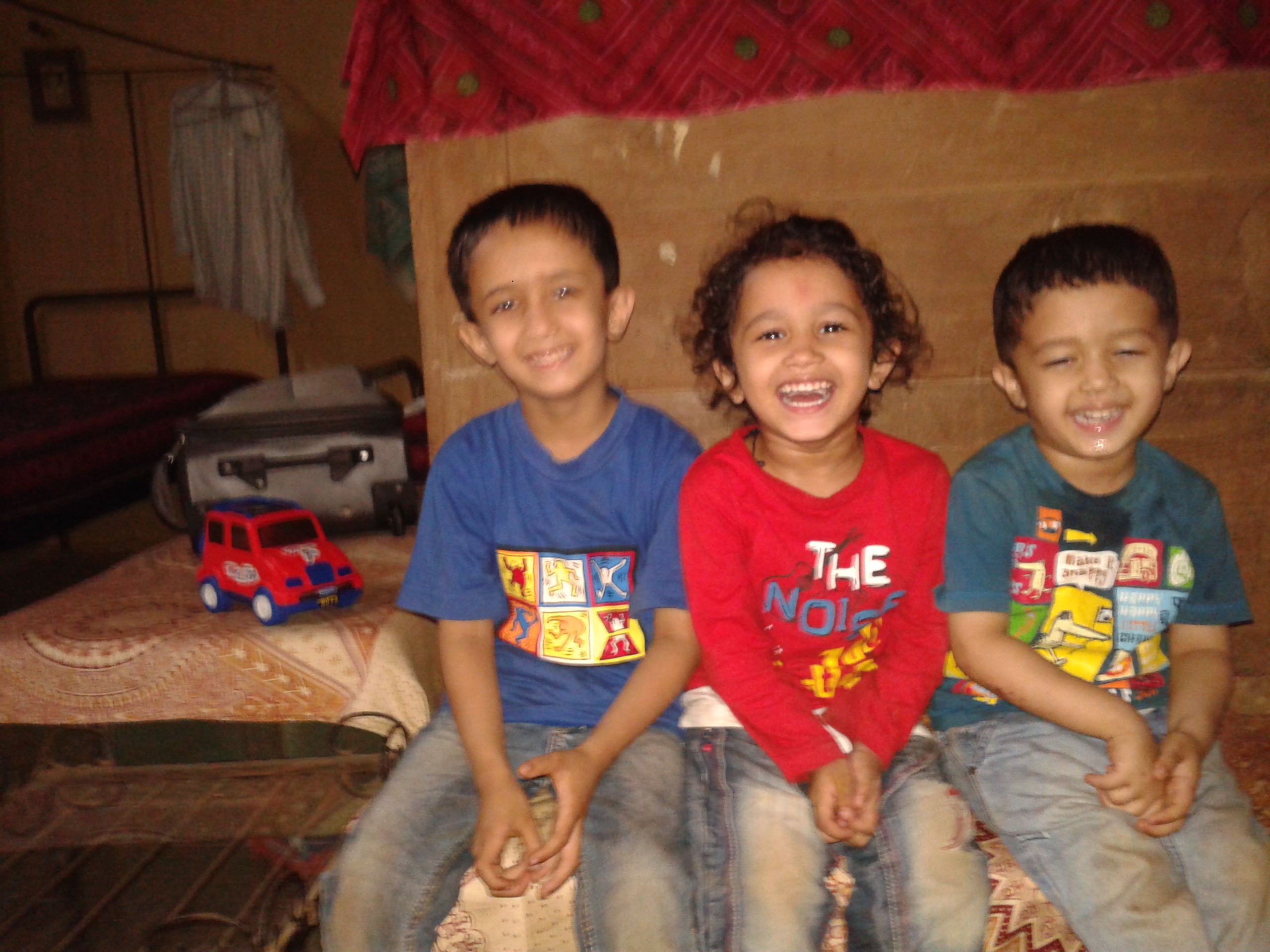 It conveys that smile is universal language which is understood by one and all. This photo has been taken in the country: India